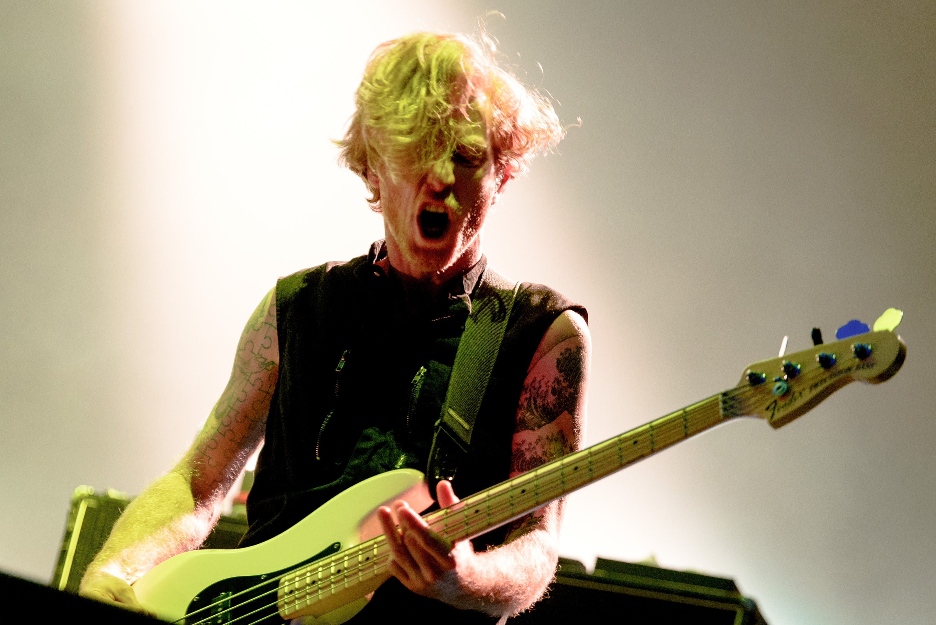 Biffy Clyro Live @ Rock im Park 2016